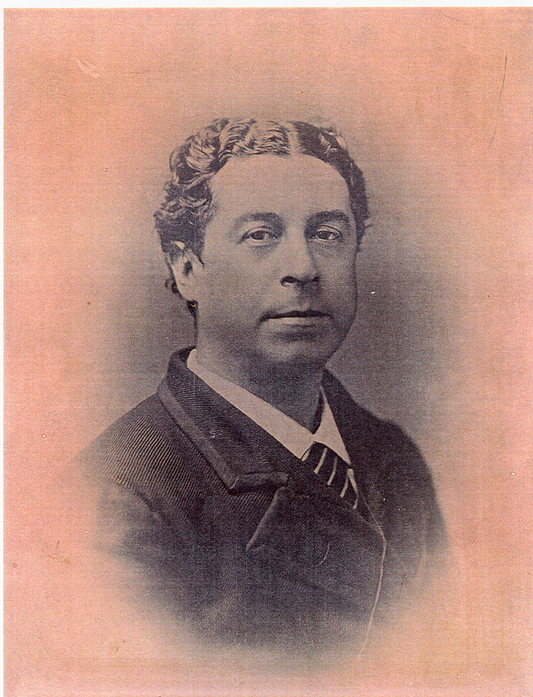 Cabinet photo of Fred Sullivan, c. 1870